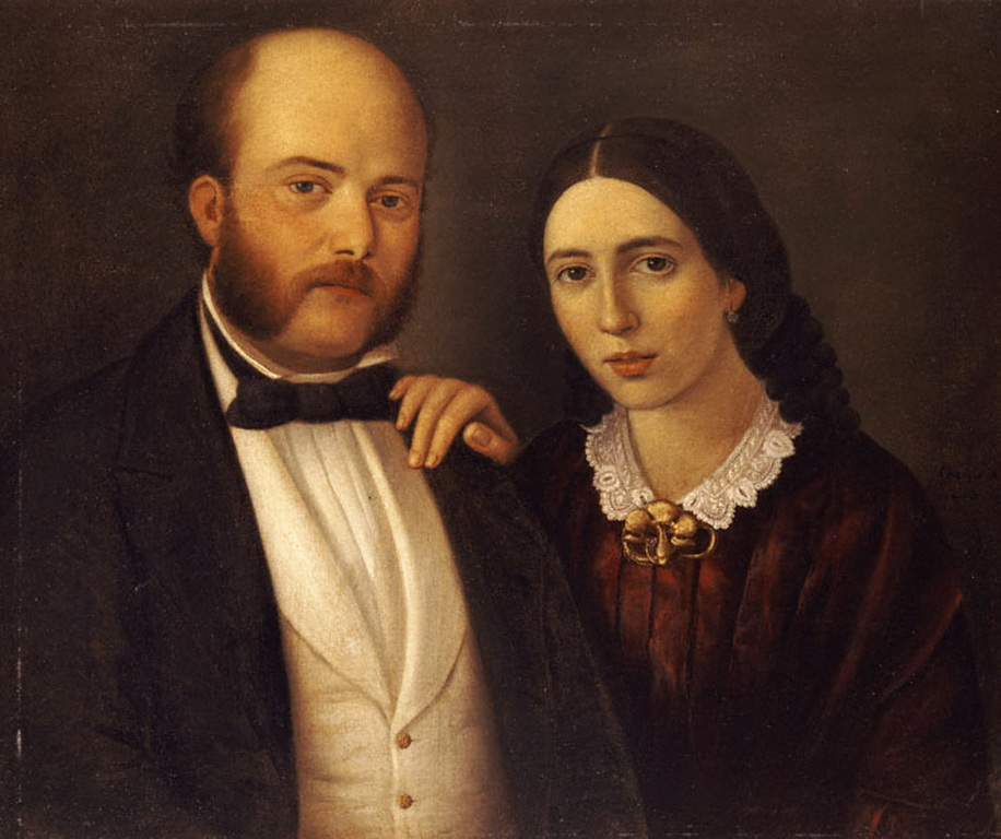 Portrait of couple, 1858